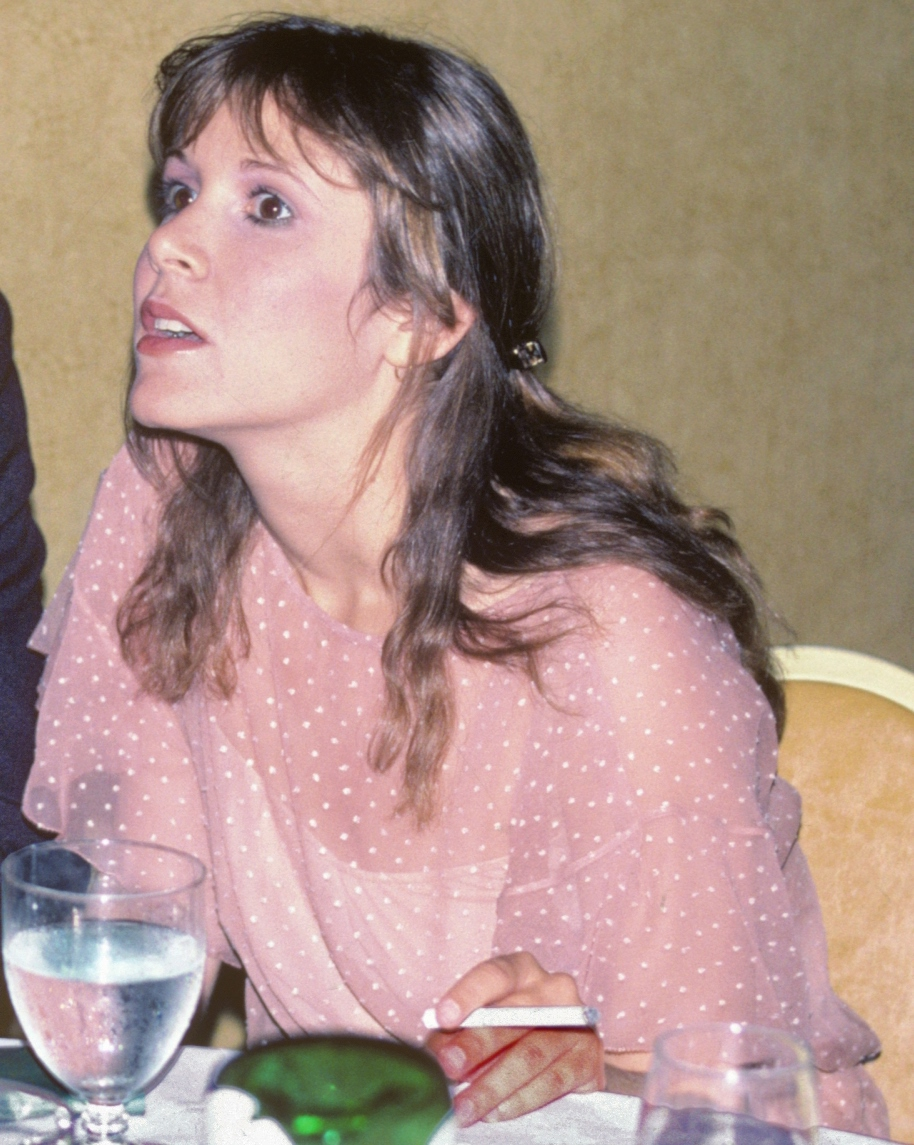 Carrie Fisher at the private party after the premiere of the Sylvester Stallone movie FIST